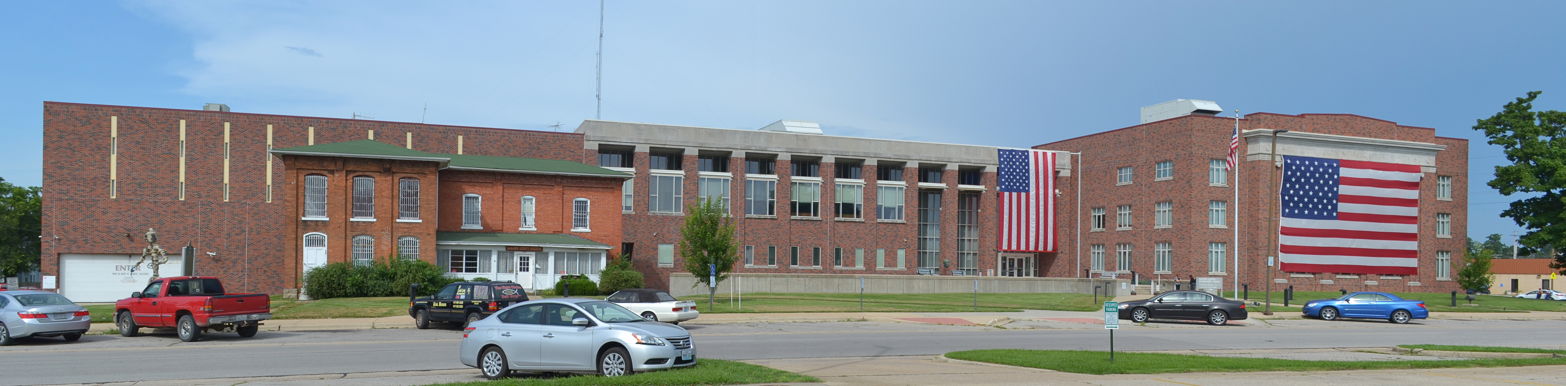 Laclede County, Missouri, courthouse in Lebanon, Missouri. The historic Laclede County Jail, now a museum, is in the foreground on the left.